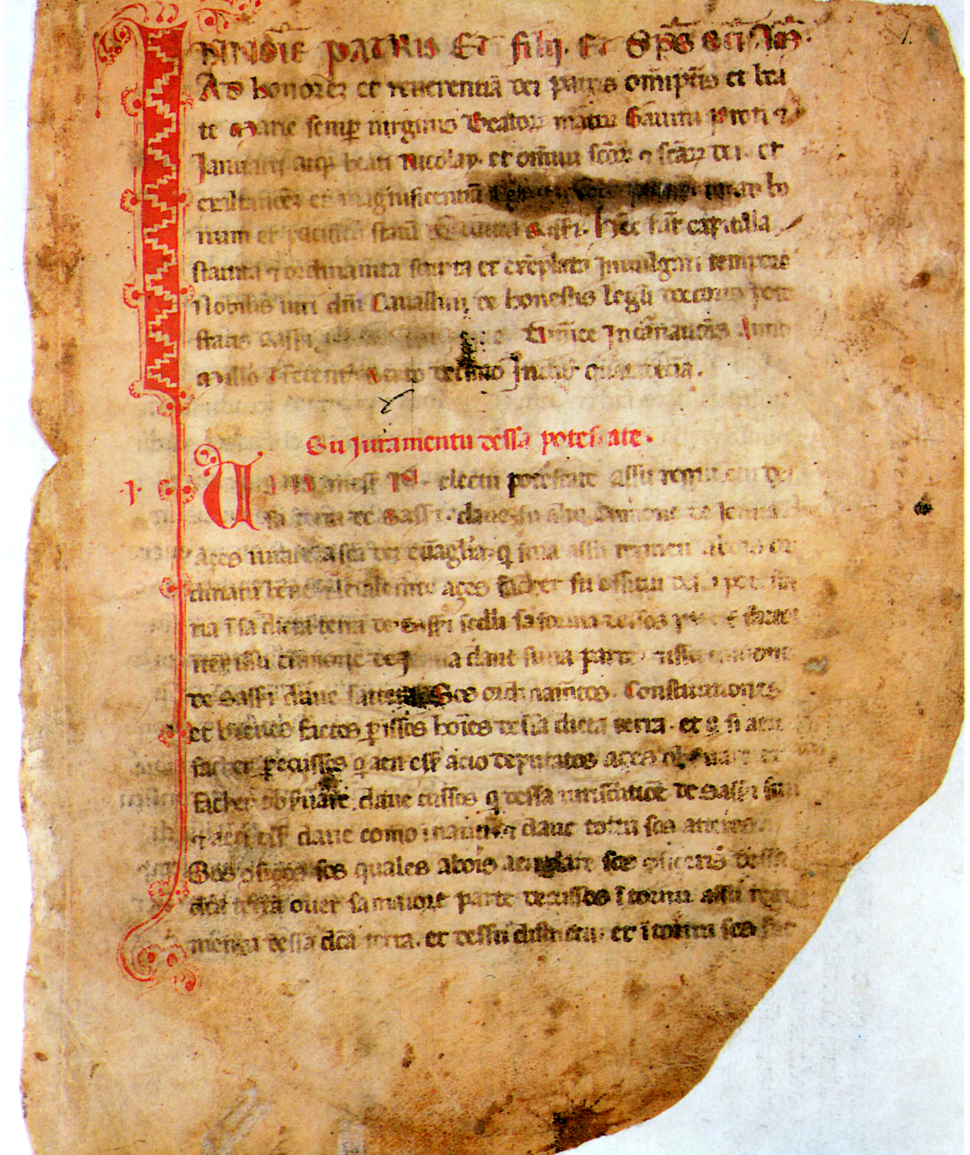 Sassari's medieval commune statutes XVI century